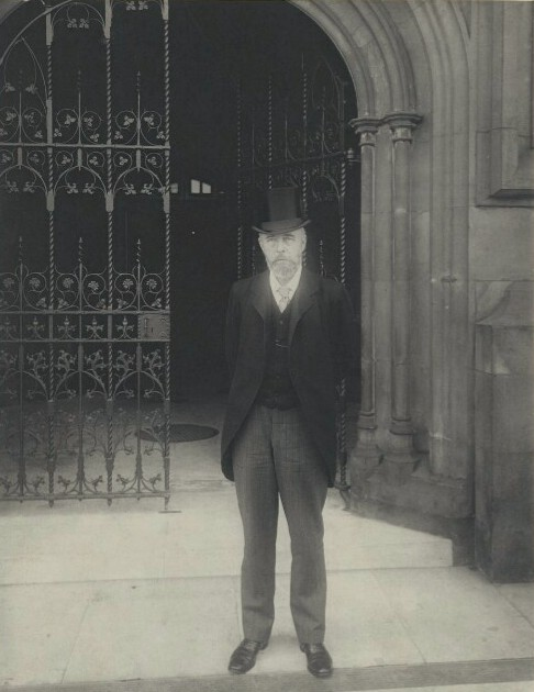 Portrait of Arthur Aikin Brodribb (1850–1927), British journalist.